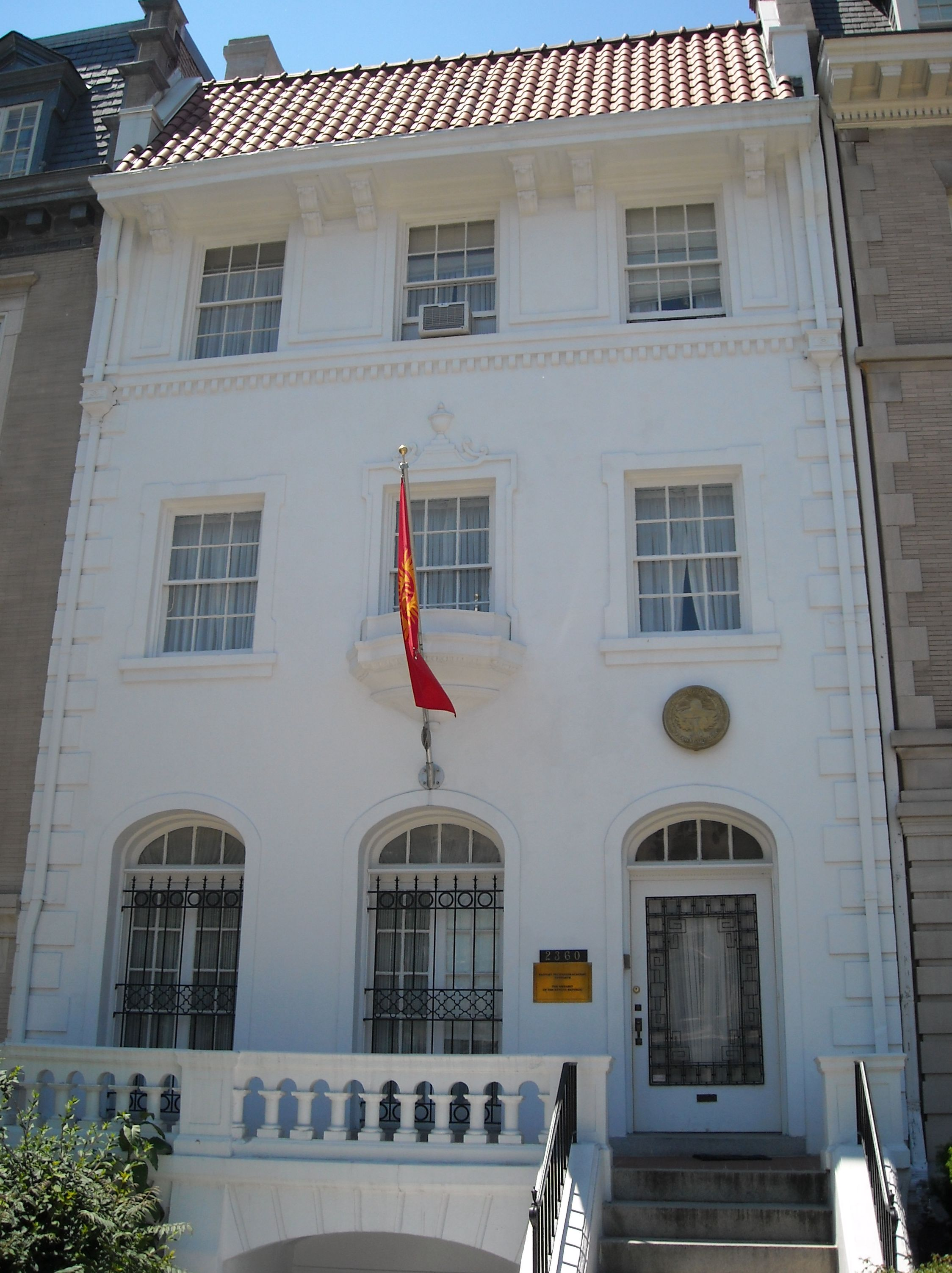 Embassy of Kyrgyzstan to the United States. Located in Washington, D.C.